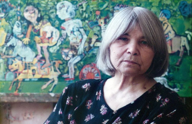 Georgeta Naparus in 1990 in her studio.